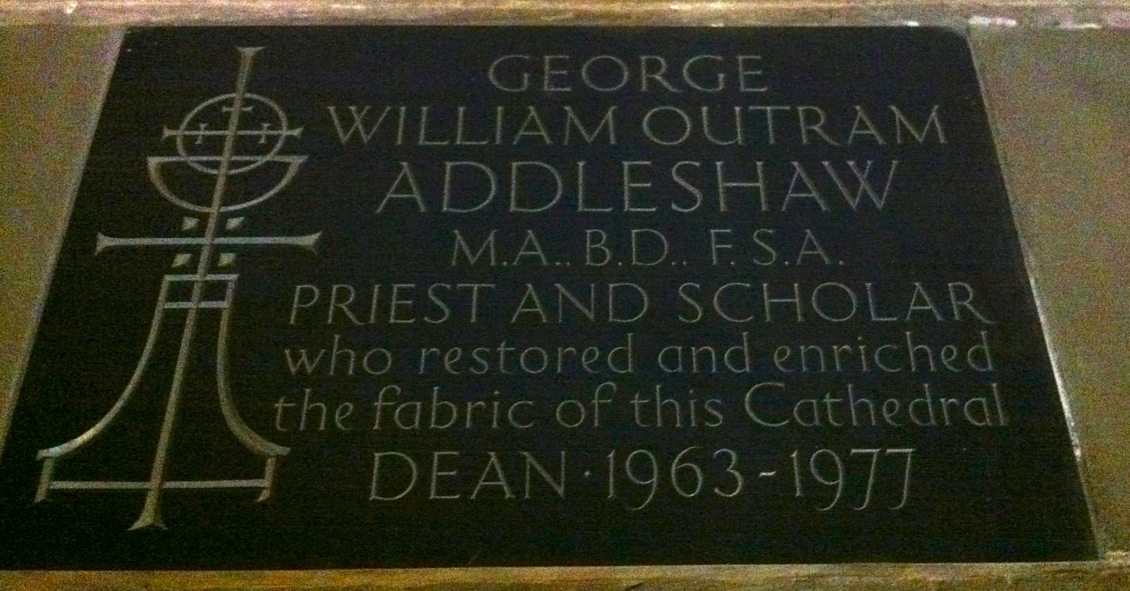 Dean of Chester 1963-1977